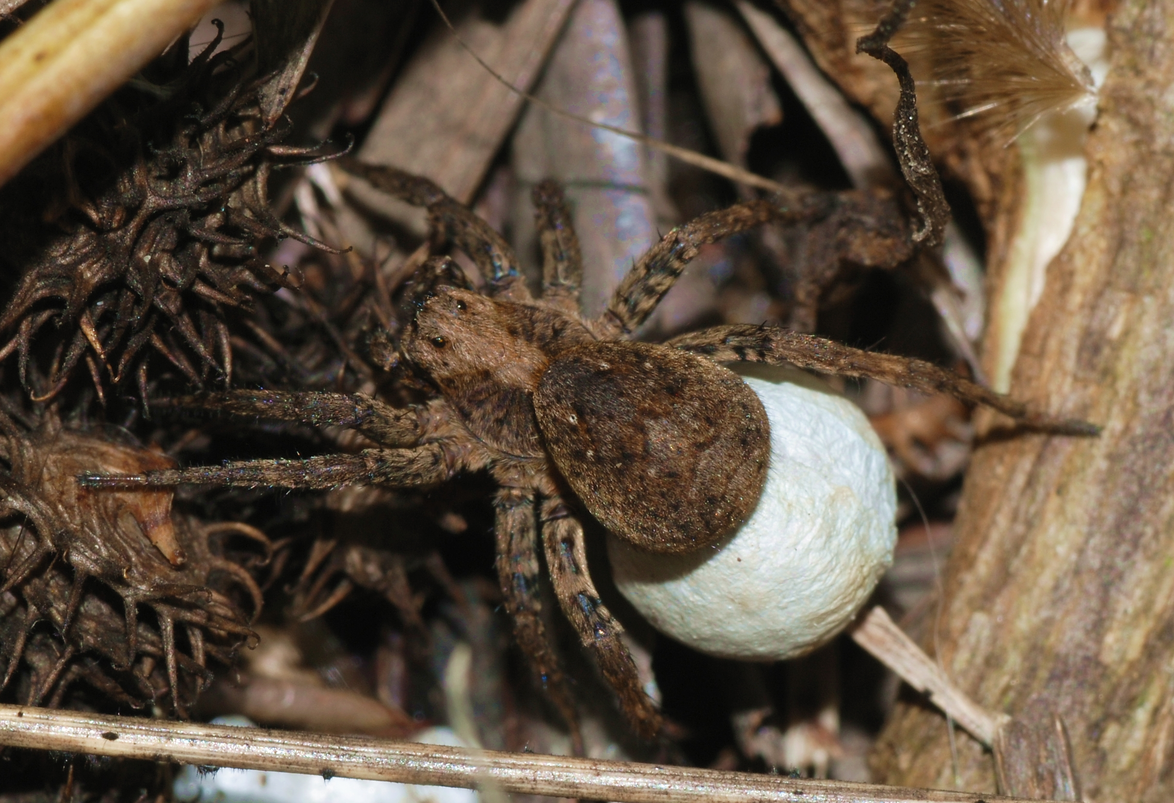 Wolf spider (cf. Alopecosa sp.) with a sac of eggs